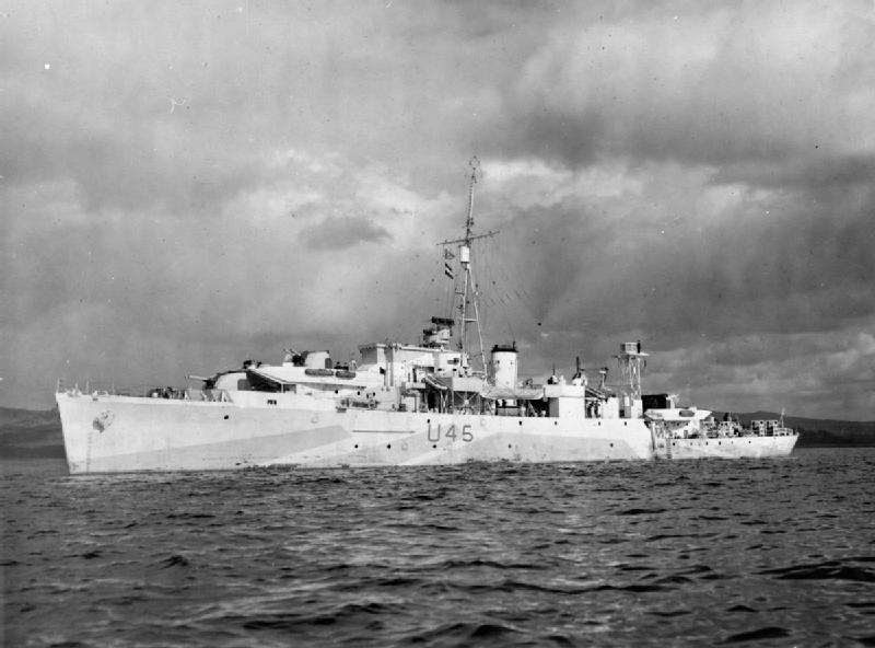 Photograph of British Black Swan class sloop HMS Wild Goose (U45).